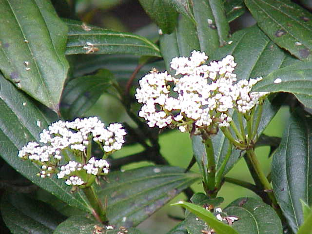 Species: Viburnum davidii Family: Adoxaceae (formerly in Caprifoliaceae) Image No. 1